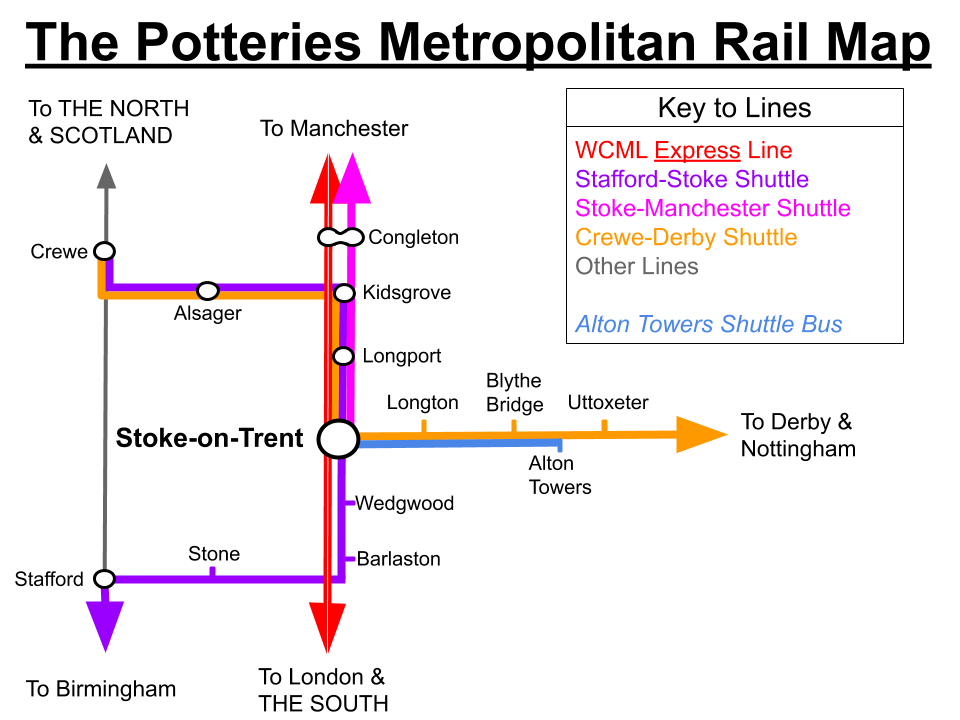 A diagram of local rail services in Stoke-on-Trent, and its surrounding hinterland.